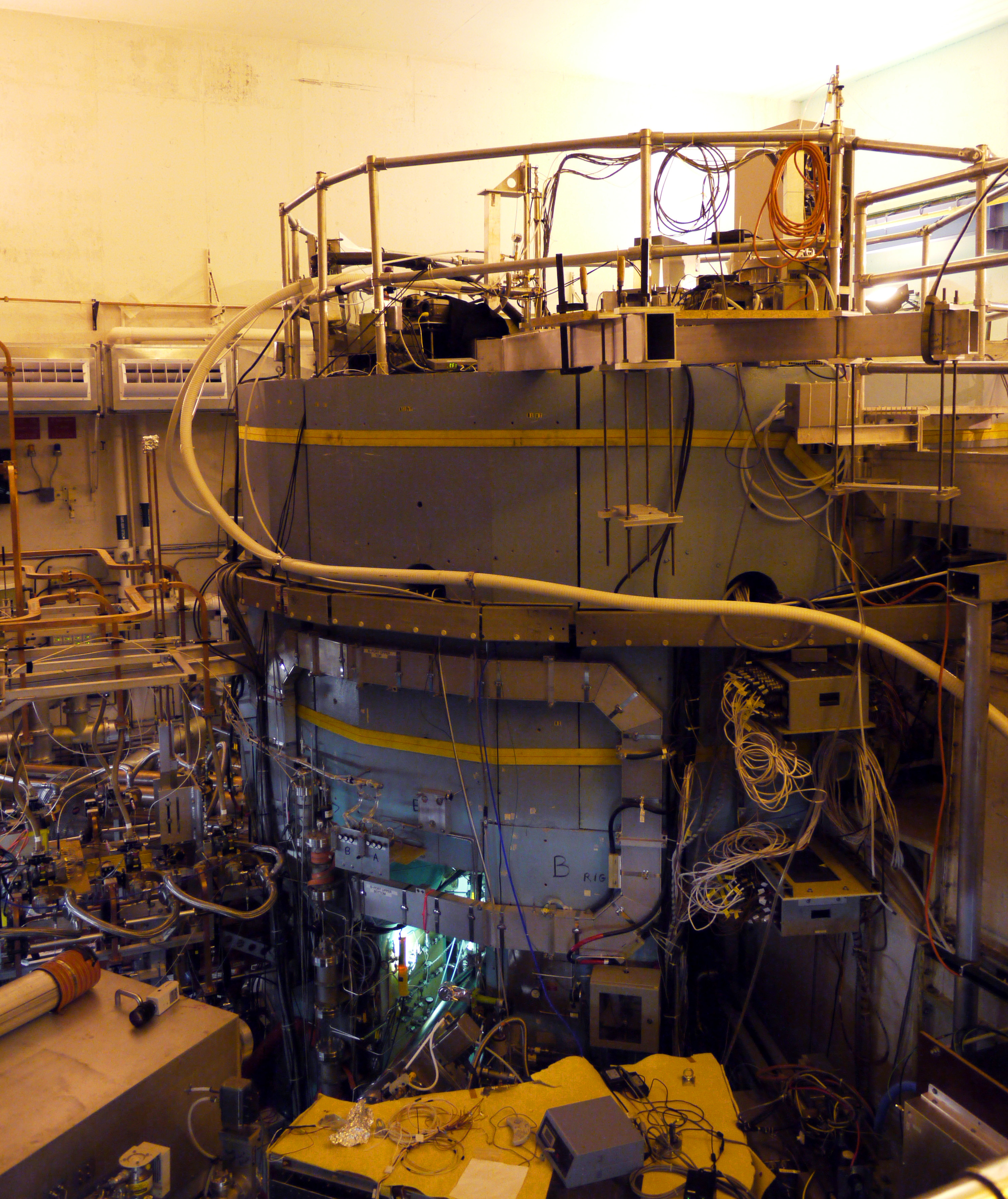 The Alcator C-Mod tokamak fusion experiment at the Massachusetts Institute of Technology (MIT) Plasma Science and Fusion Center (PSFC). Photo taken March 1, 2012 by Daniel Brunner. Cropping and colour adjustment done March 1, 2012 by Geoff Olynyk.